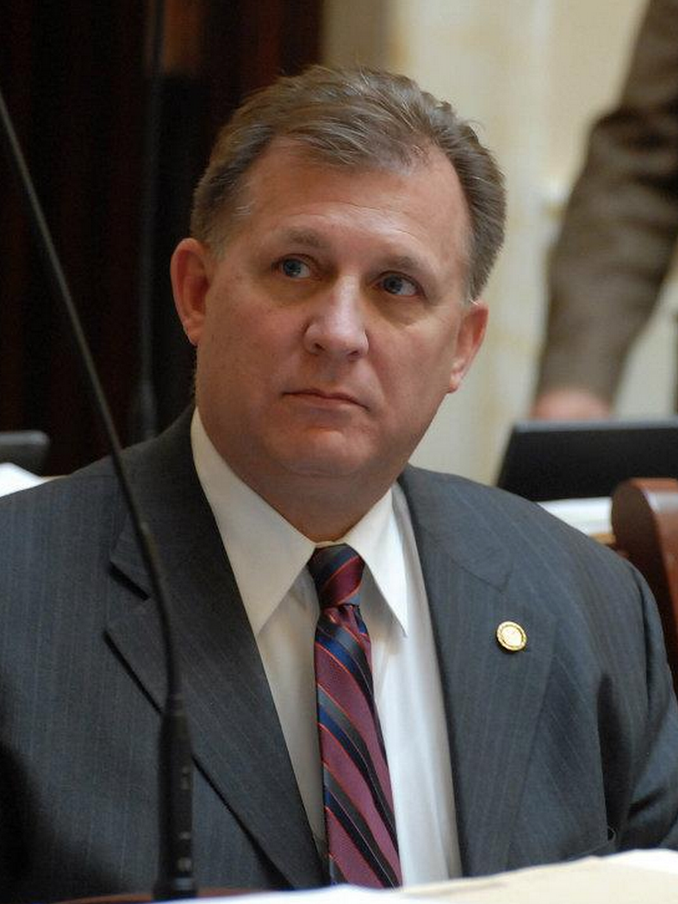 Senator Curtis Bramble